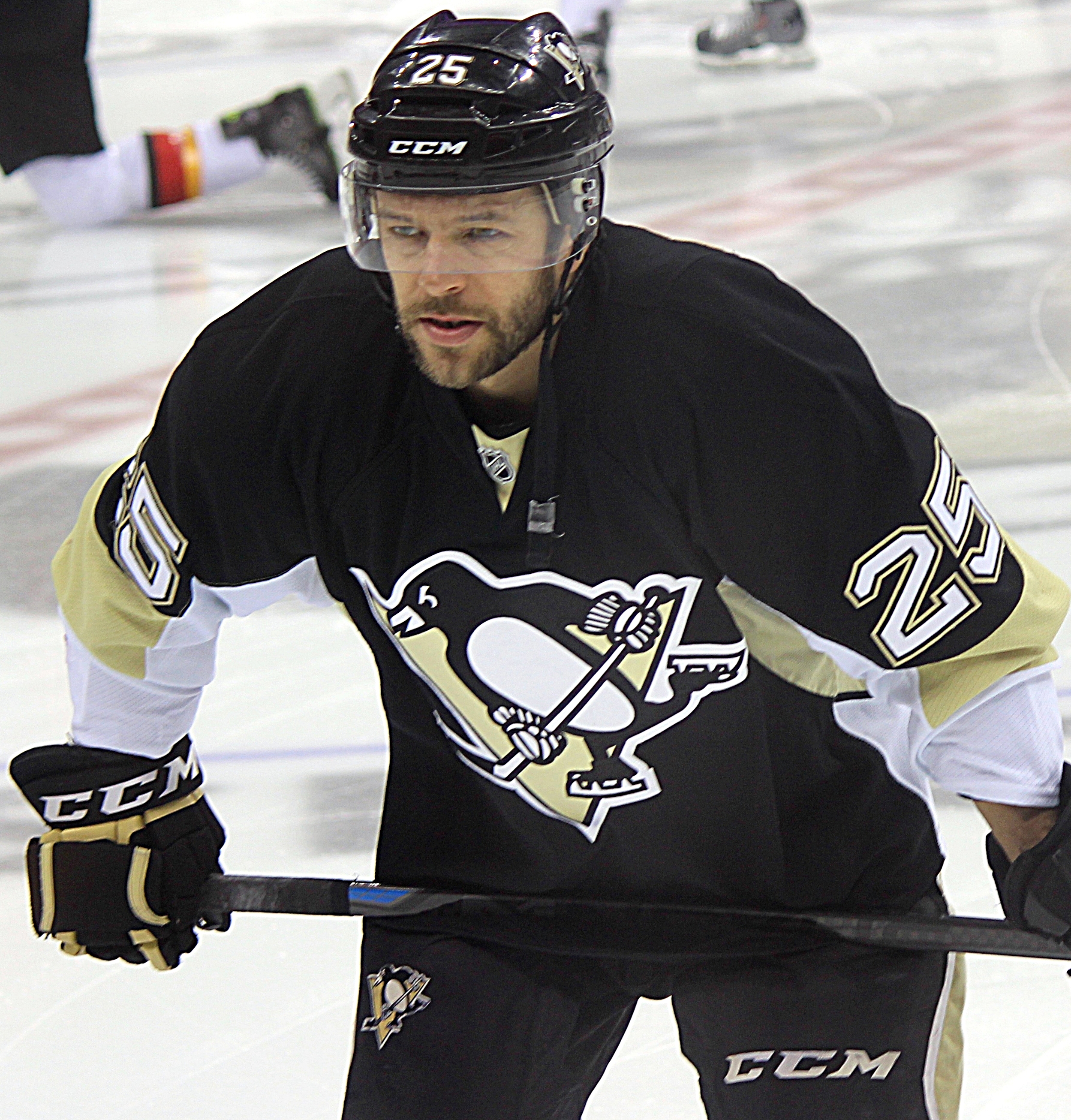 Pittsburgh Penguins forward Andrew Ebbett during a game against the Calgary Flames, December 12, 2014, at Consol Energy Center in Pittsburgh, PA.